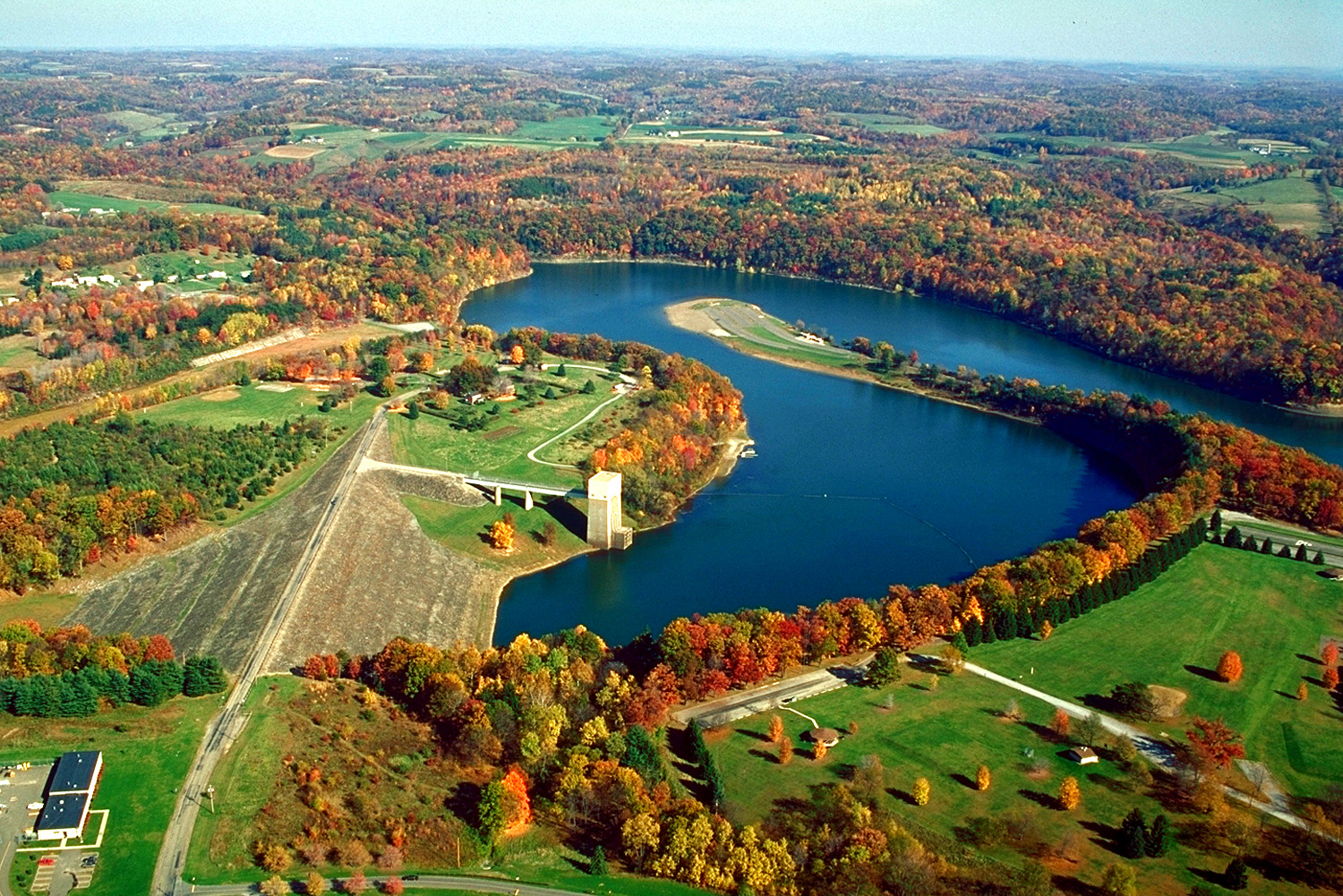 Crooked Creek Lake and Dam on the Crooked Creek near Ford City, Armstrong County, Pennsylvania, USA. The creek flows into the Allegheny River a few miles downstream of the dam